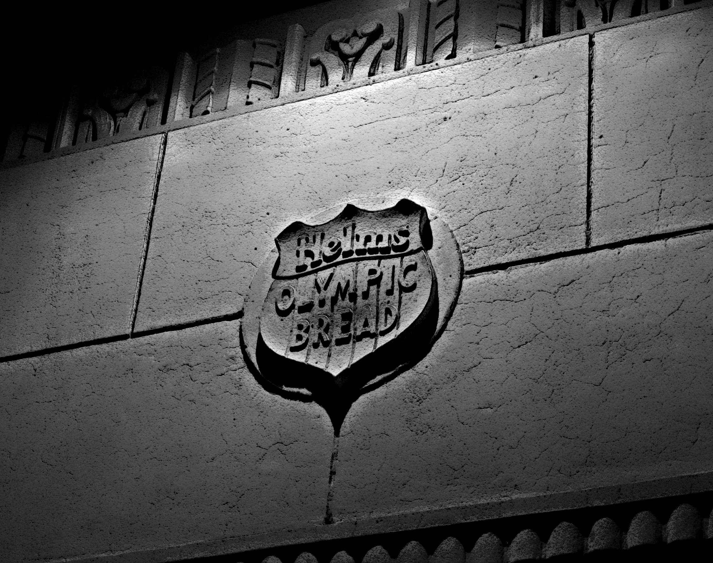 Helms Bakery Building, Olympic Bread sign in Culver City, California